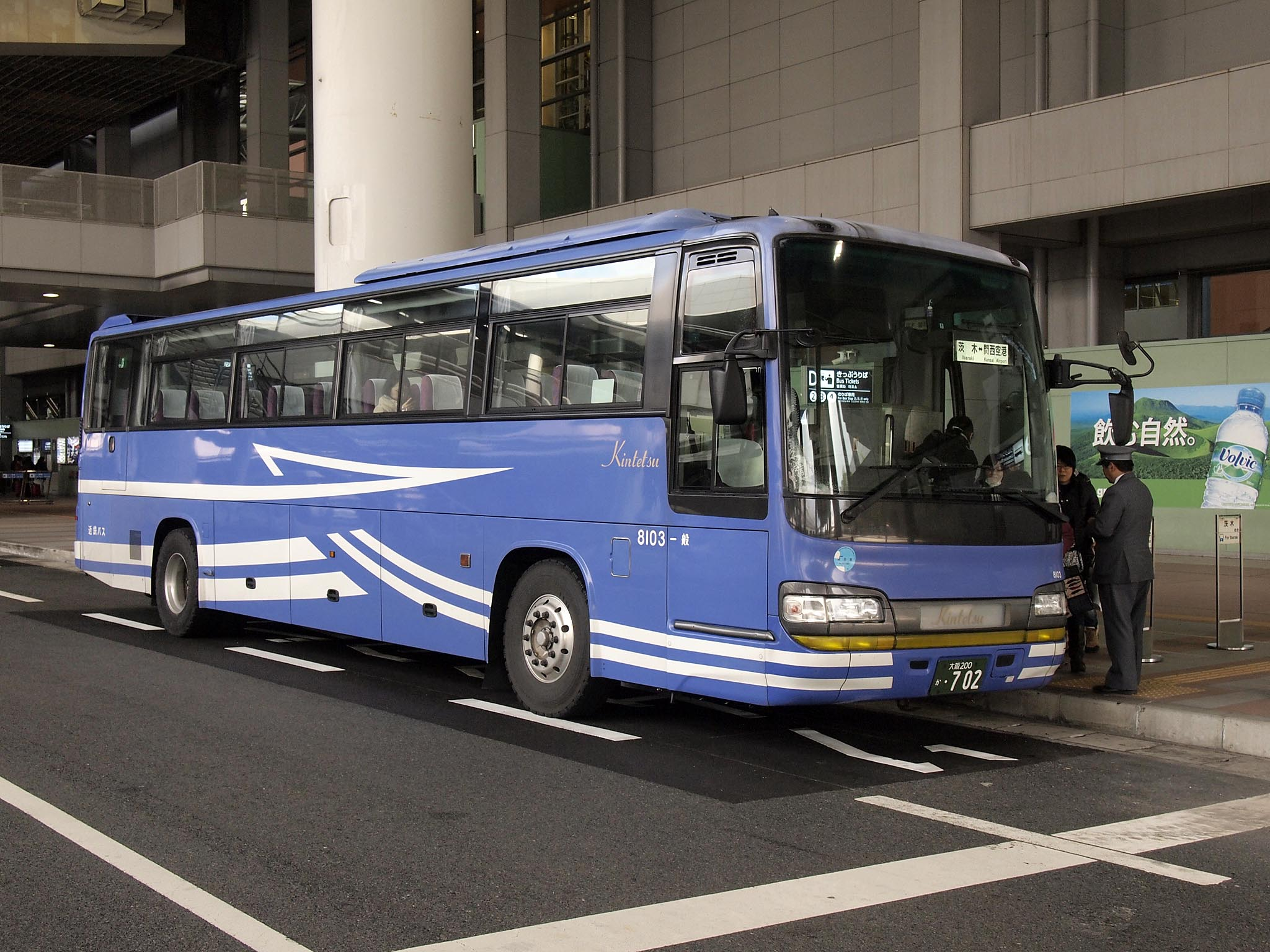 Fleet of Kintetsu Bus, for Airport shuttle, painted Kansai Airport Transportation Enterprise (KATE) color. Model: Hino Selega R KL-RU4FSEA License plate: OSO200 KA-702 Place: Kansai International Airport